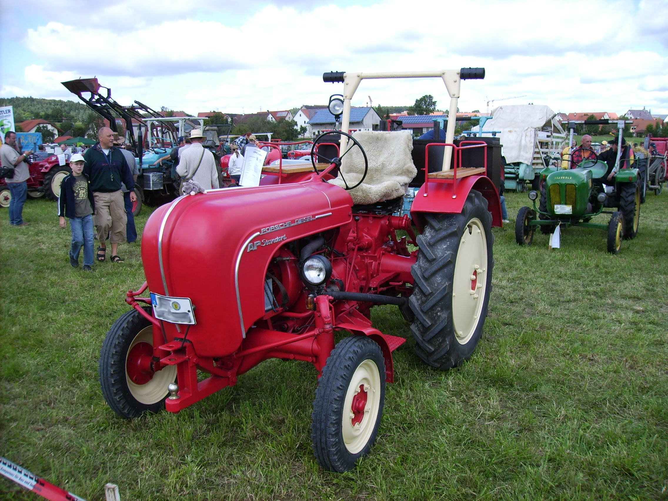 Porsche-Diesel Standard AP, 20 HP